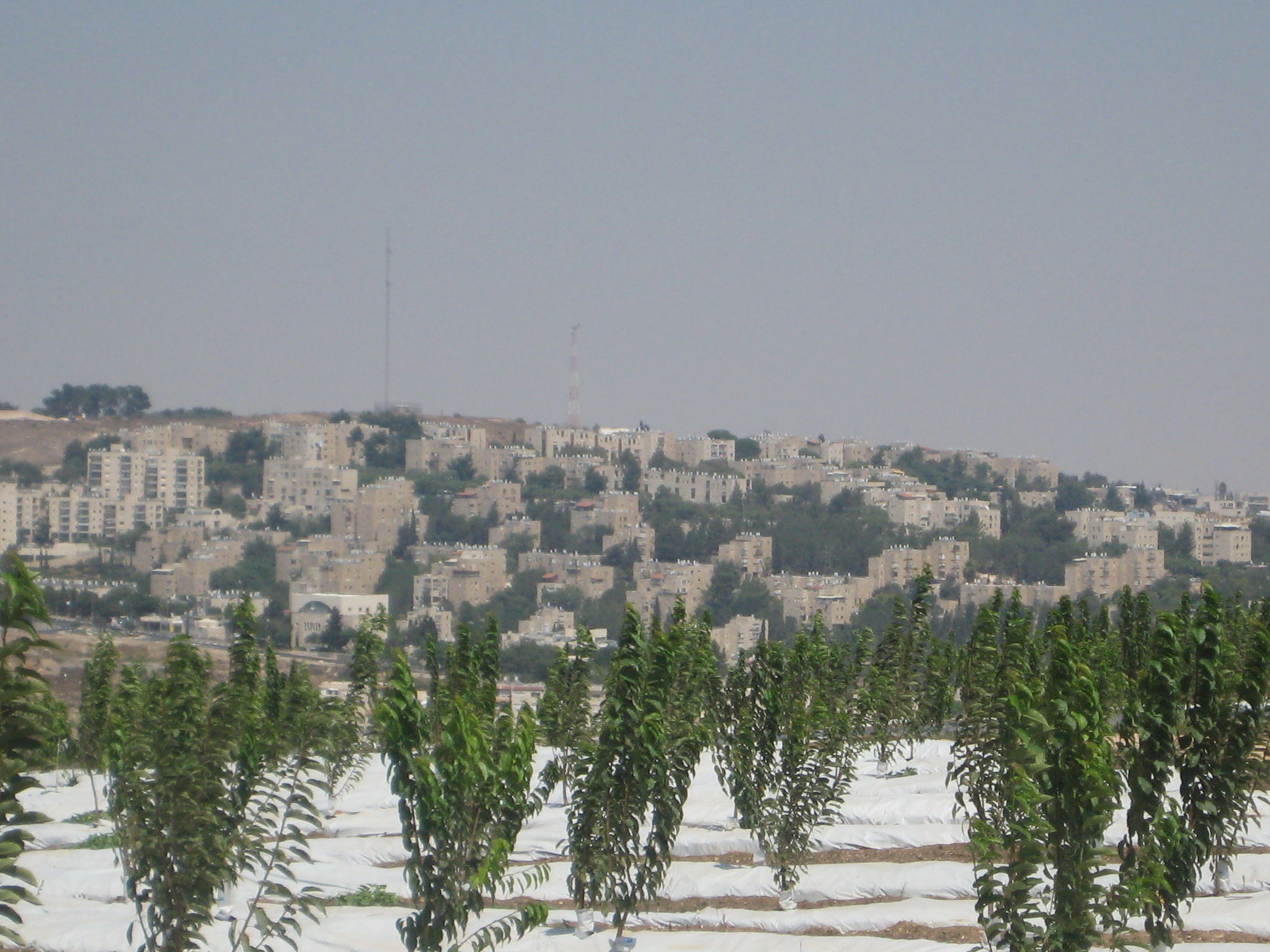 Talpiyot Mizrach neighbourhood, Jerusalem